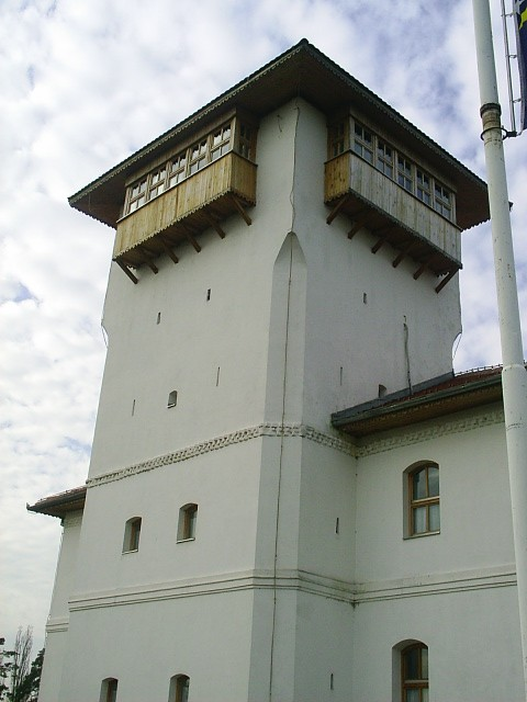 Town of Gradačac, Bosnia and Herzegovina - an old tower